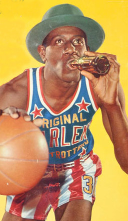 Harlem Globetrotters player Goose Tatum in a Coca-Cola advertisement, circa 1954.